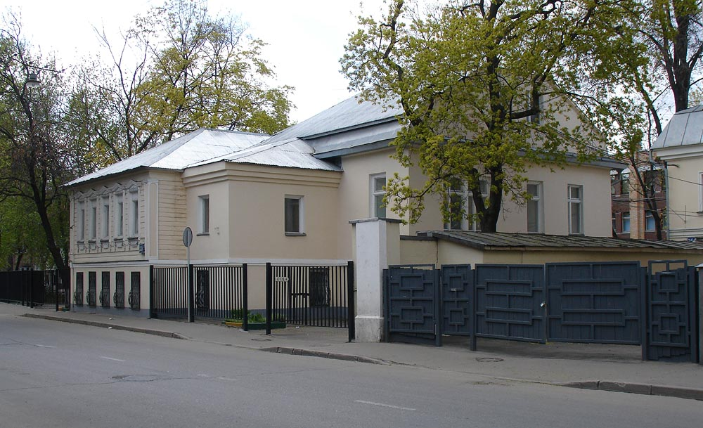 Moscow, Tovarischesky Lane